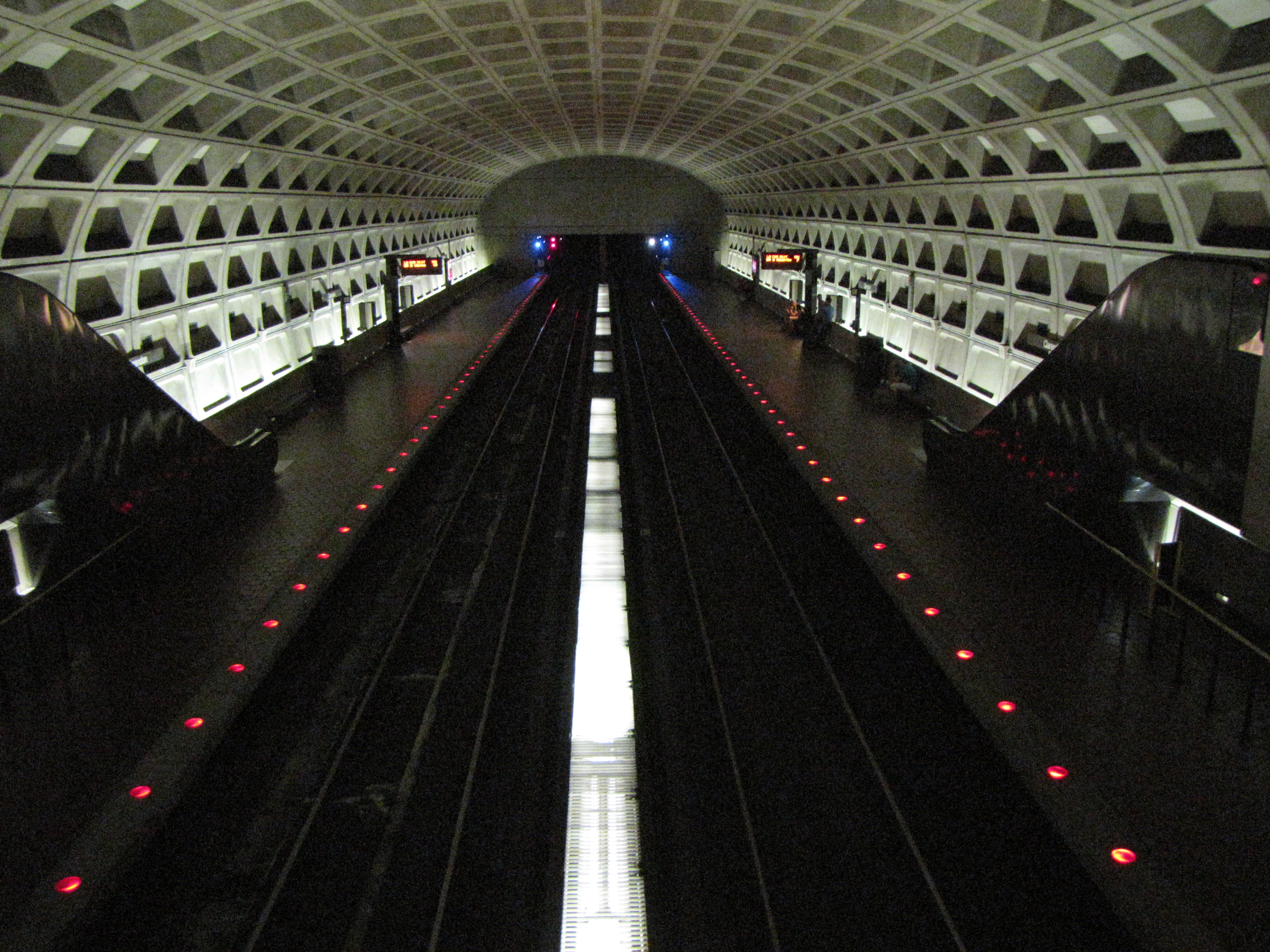 Outbound end of Clarendon, a station on the Orange Line of the Washington Metro.